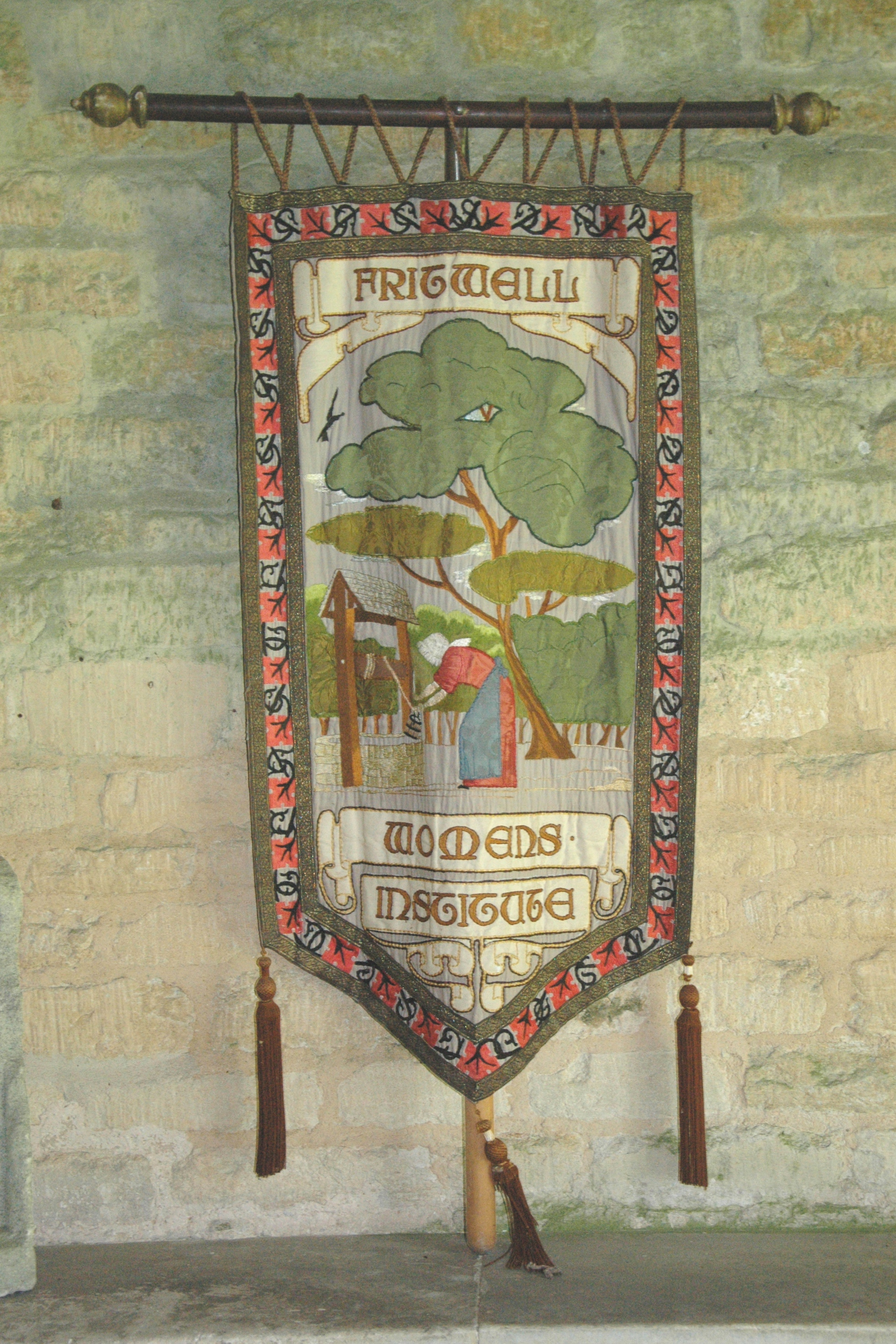 Women's Institute banner in St Olave's parish church, Fritwell, Oxfordshire